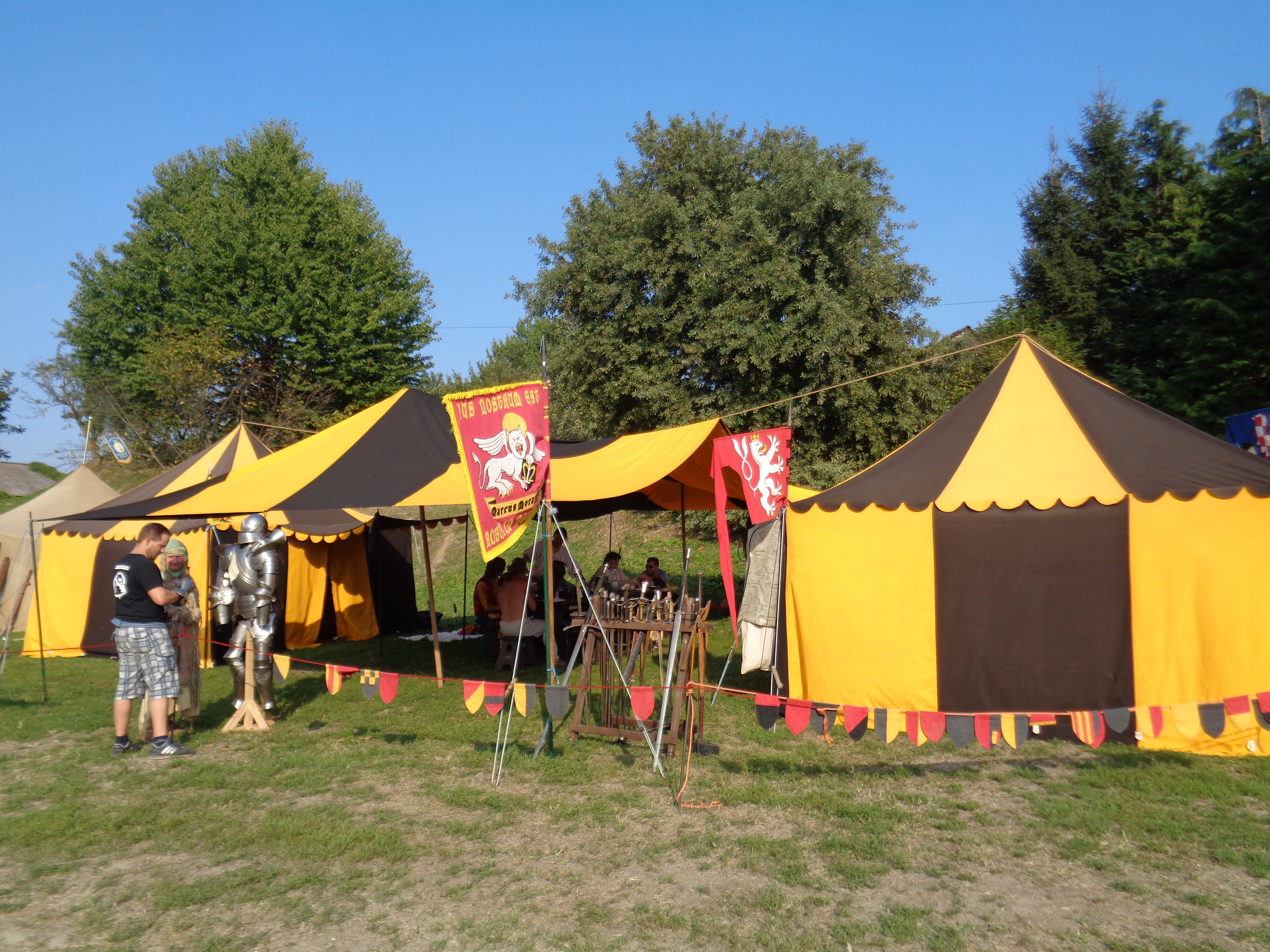 Koprivnica Renaissance Festival, Koprivnica, Croatia - tents of the Czech knights